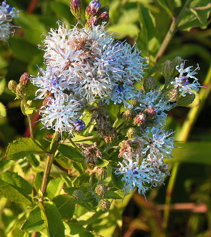 A species of tropical Africa, known as Ironweed and appreciated for its seed oil. Photo from Chimwadzulu area of Malawi.